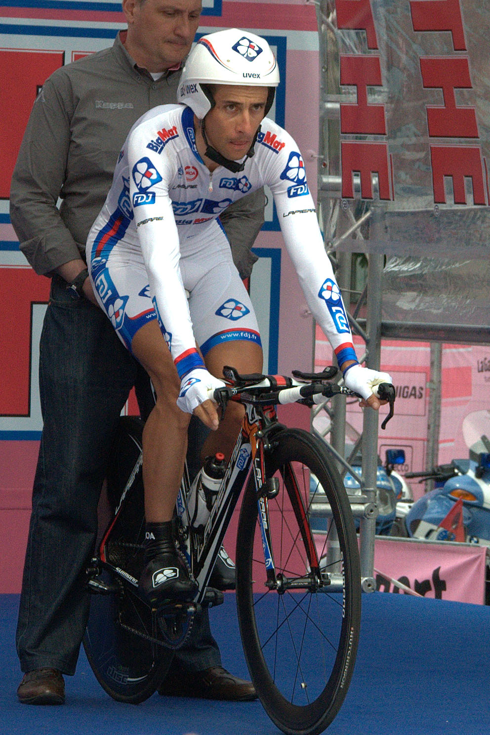 Sandy Casar before the start of last stage Giro d'Italia 2012